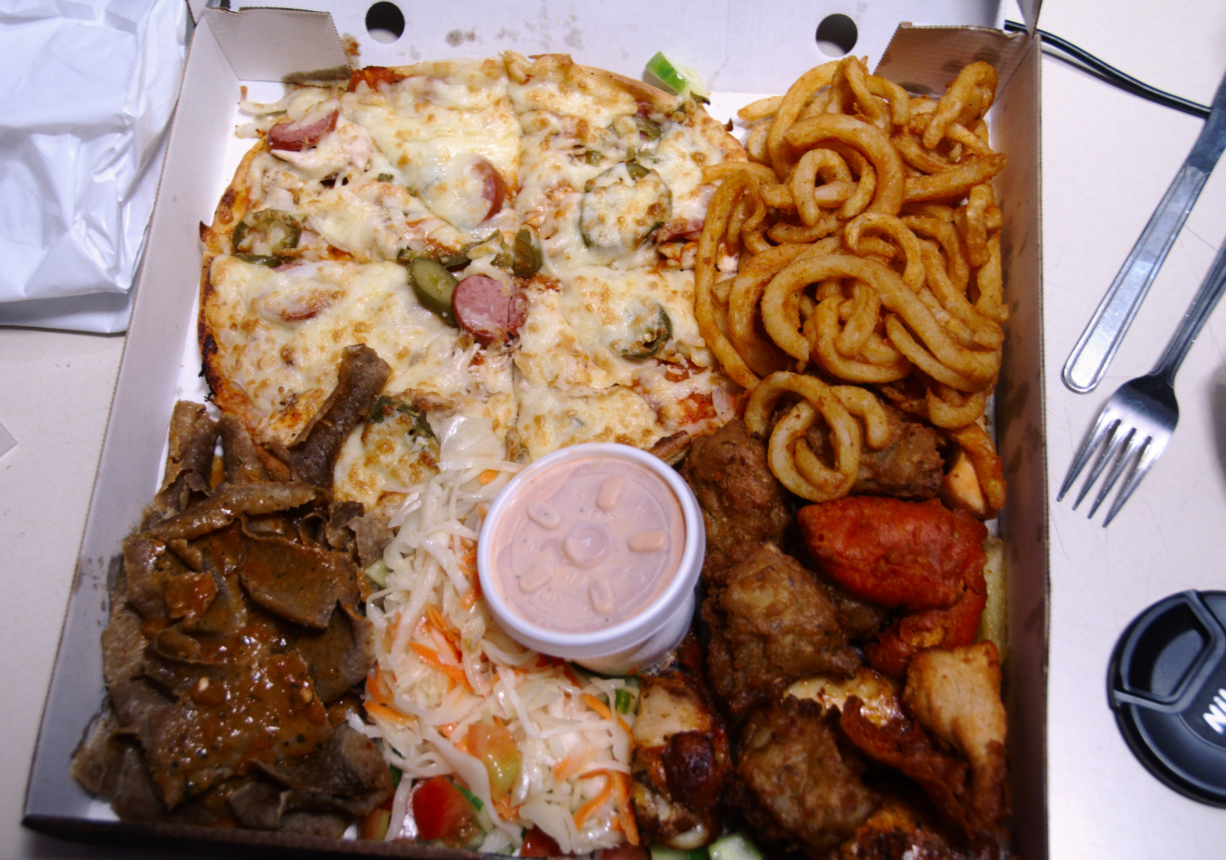 Munchy box. Clockwise from the top: A pizza, "Glasgow salad" (chips), chicken bits (spiced and unspiced) and some pakoras, salad, a tub of sauce, and doner meat.